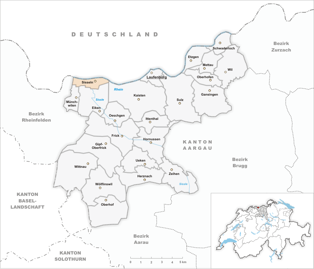 Municipality Sisseln